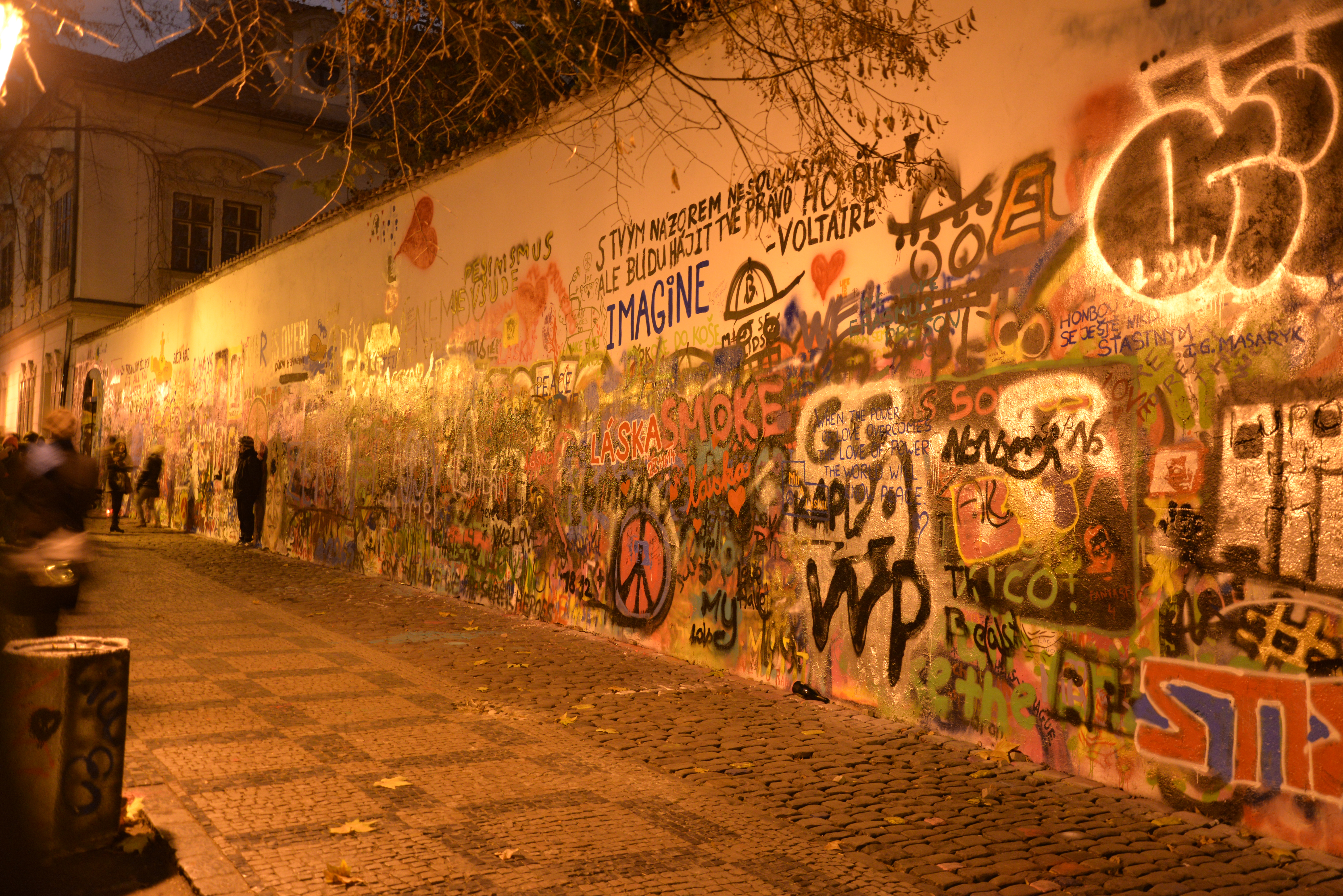 John Lennon Wall in Prague - as on November 28, 2014 - new paintings after whiting on November 17, 2014